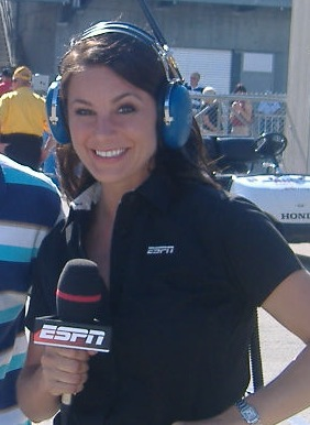 Brienne Pedigo at the Indianapolis Motor Speedway for the second day of qualifications for the 2007 Indianapolis 500.